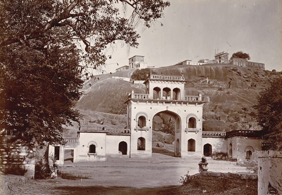 Photograph of Maula Ali Hill, from the Macnabb Collection (Col James Henry Erskine Reid): Album of Indian views, taken in the early 1900s. The view shows Maula Ali Hill in Secunderabad, Andhra Pradesh. The Shrine of Maula Ali is located on the hill, together with a mosque and other ancient ruins including an old fortress and a large prehistoric cemetery